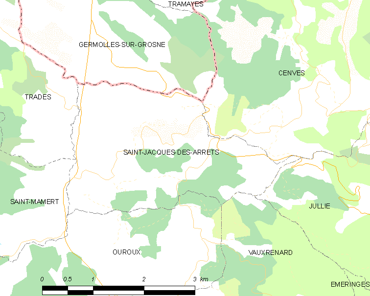 Map of French municipality